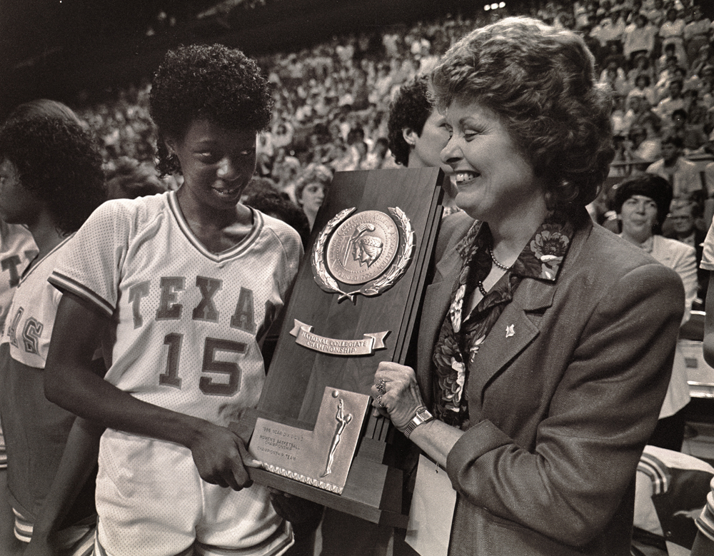 Annette Smith with Head Coach Jody Conradt, holding the National Championship trophy, after winning the 1986 NCAA Women's Basketball Tournament